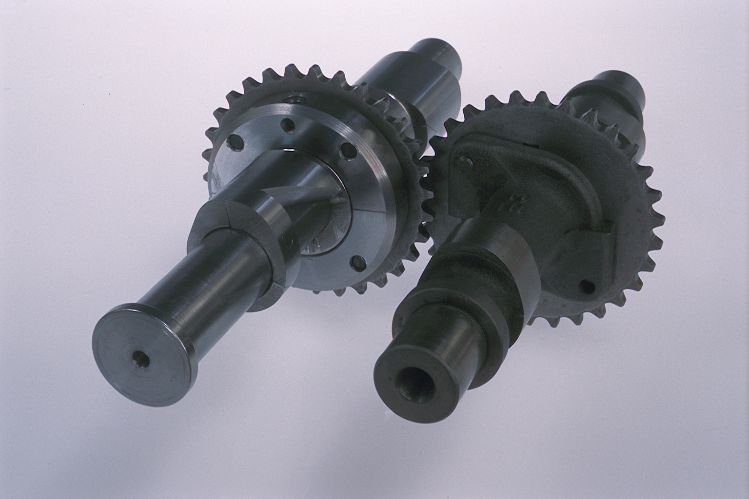 Suzuki GSX 250 standard and helical cams positioned side-by-side for comparison.